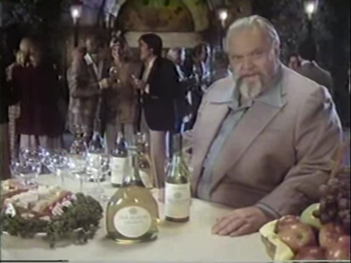 1970s wine advert